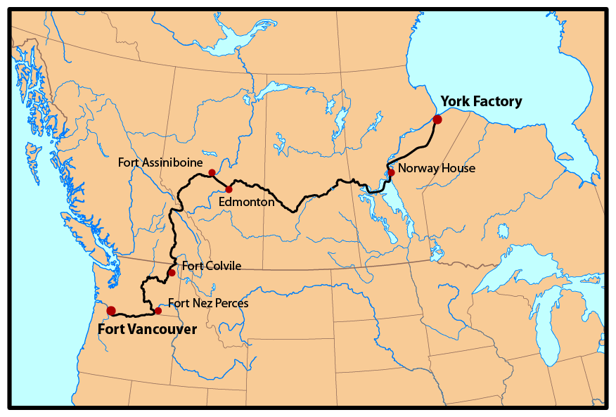 Map of the route of the York Factory Express. I, Pfly, created it. Books referenced for route information: Mackie, Richard Somerset (1997). Trading Beyond the Mountains: The British Fur Trade on the Pacific 1793-1843. Vancouver: University of British Columbia (UBC) Press. ISBN 0-7748-0613-3; and Meinig, D.W. [1968] (1995). The Great Columbia Plain, Weyerhaeuser Environmental Classic edition, University of Washington Press. ISBN 0-295-97485-0.